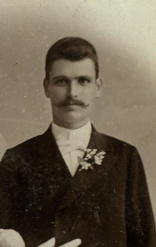 Andon Stanev, 1881